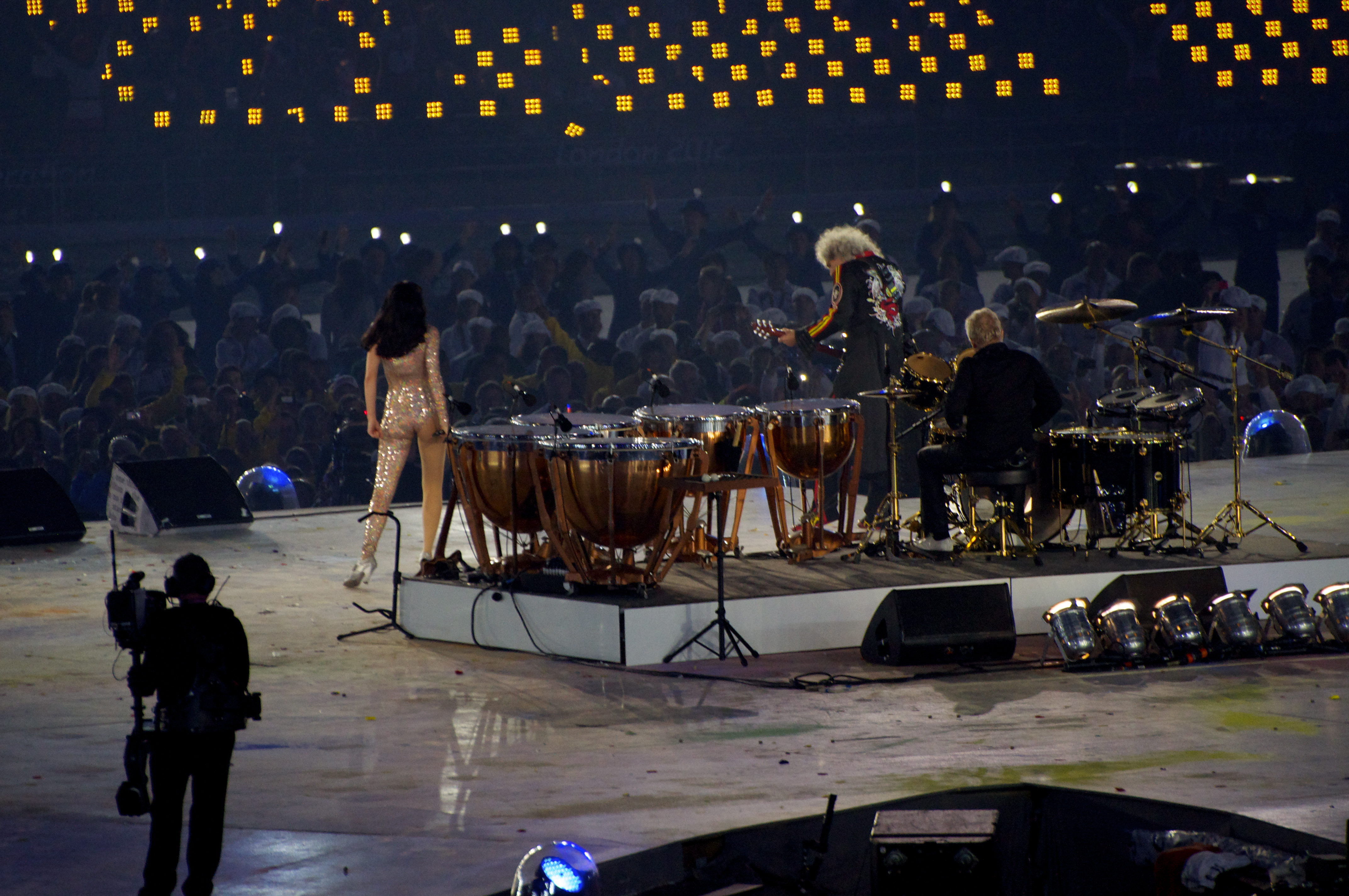 Queen featuring Jessie J during the closing ceremony of London 2012.